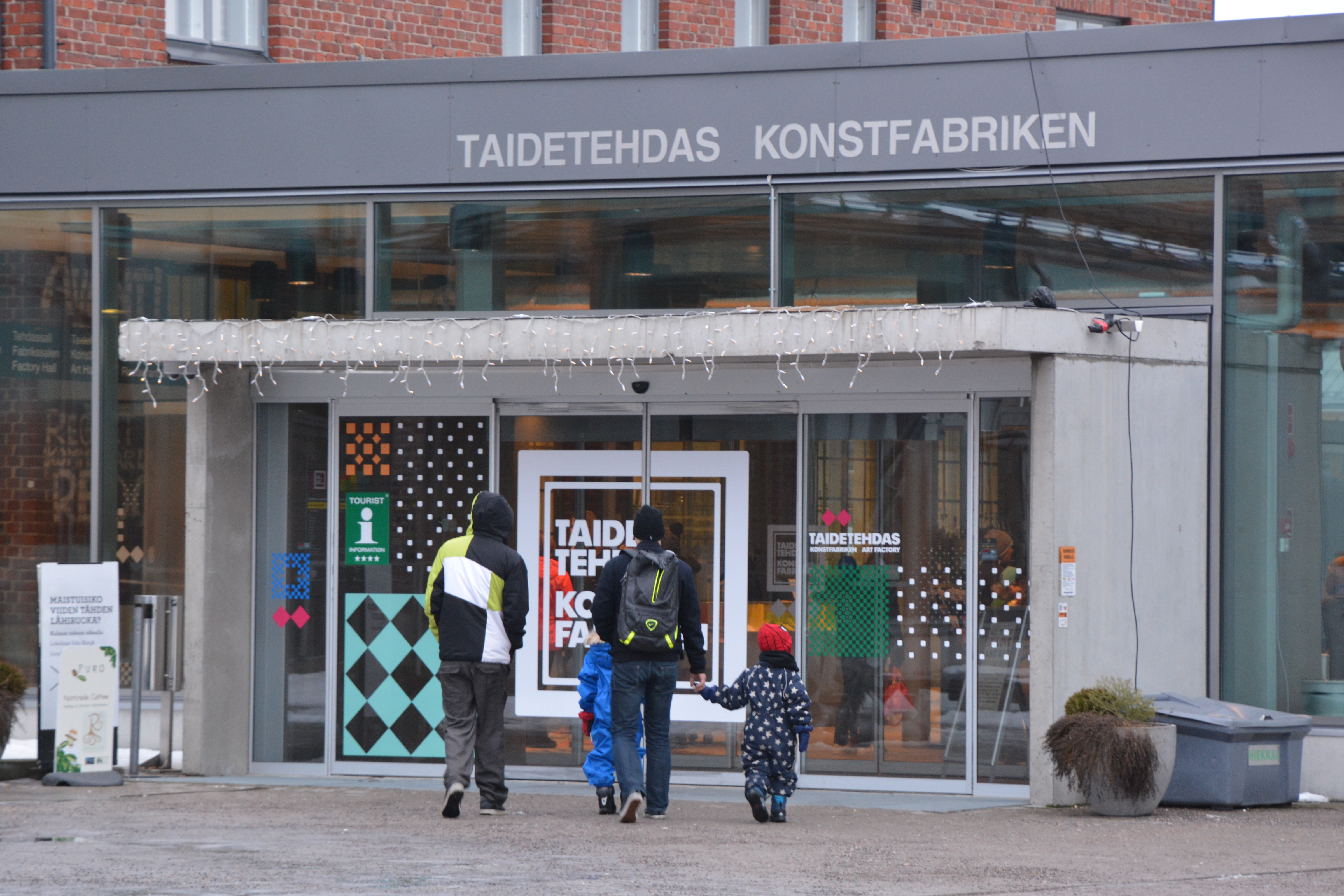 Konstfabriken Borgå, entré